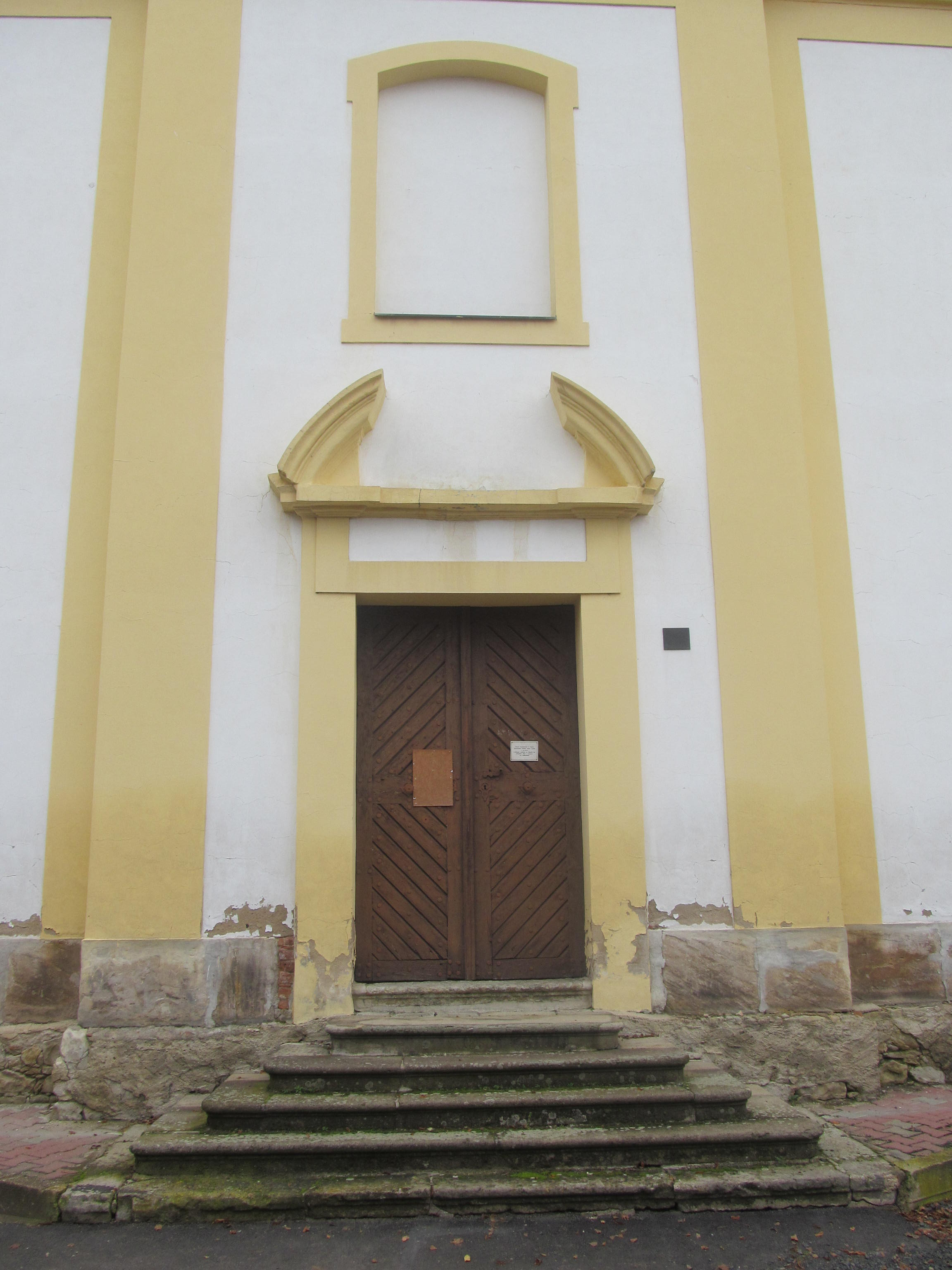 Church of the Assumption of the Virgin Mary (Opočno) – portal